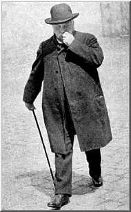 Paladhil Emil (french composer)